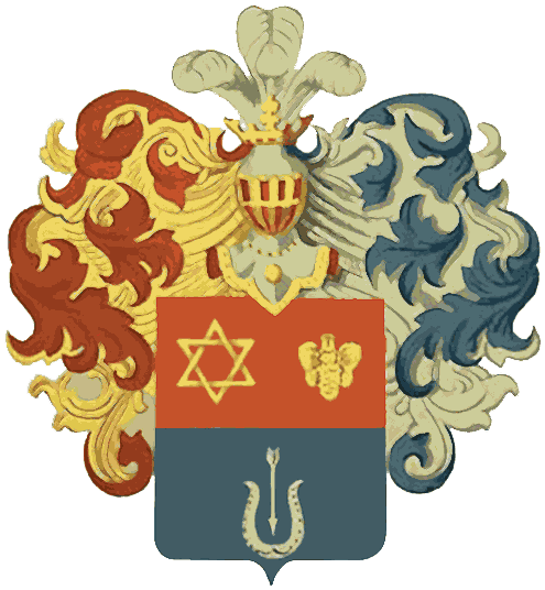 Coat of Arms of family